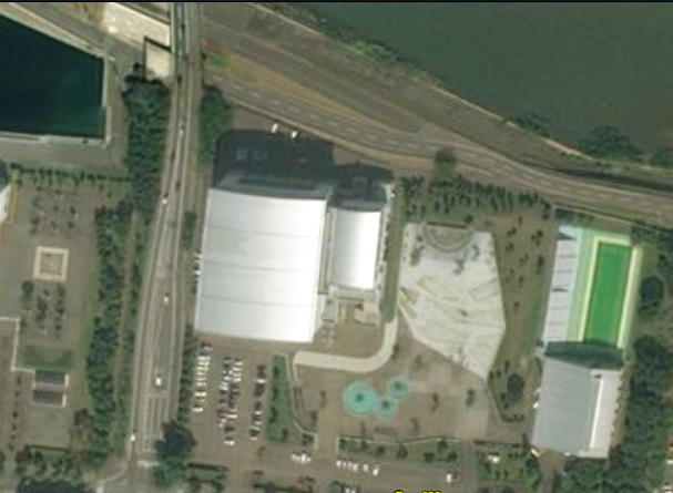 Satellite view, Noshiro City General Gymnasium